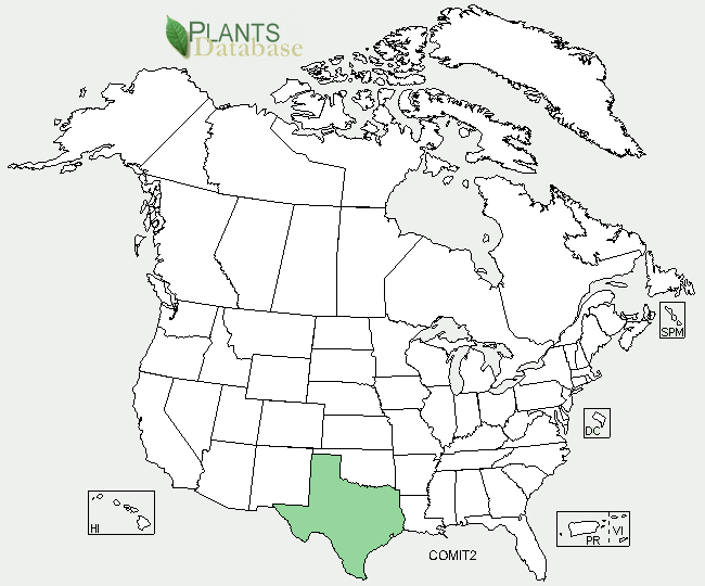 Map of areas where C. micrantha ssp. texensis